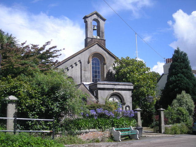 St Peter's parish church, Flushing, Cornwall, seen from the west